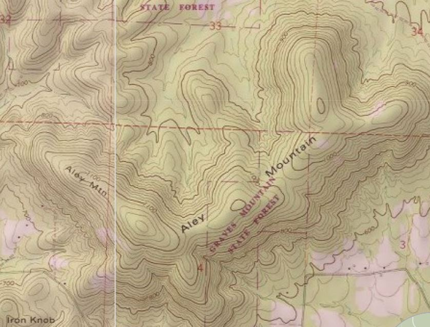 Capture of a portion of the Piedmont and Patterson Missouri USGS Quadrangles showing Aley Mountain in Wayne County, Missouri, USA